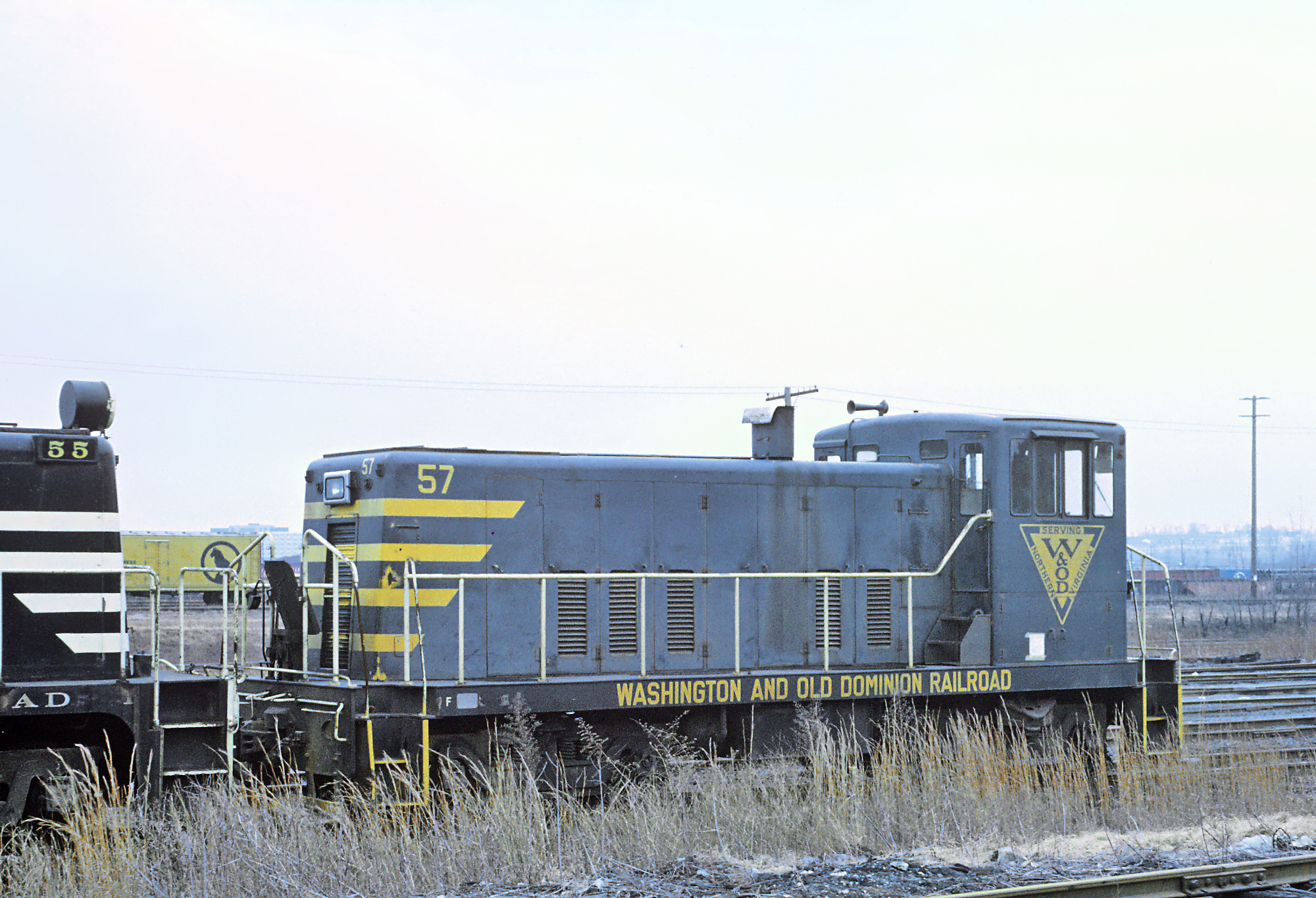 Washington & Old Dominion Railroad #57, a General Electric 70-ton diesel-electric switcher built in 1956 and, at left, the front end of W&OD #55, a Whitcomb 75-ton diesel-electric switcher rebuilt in 1950, in the Baltimore & Ohio Railroad's Riverside Yard near Locust Point in Baltimore, Maryland, on January 19, 1969, after the W&OD Railroad closed in 1968.[1]